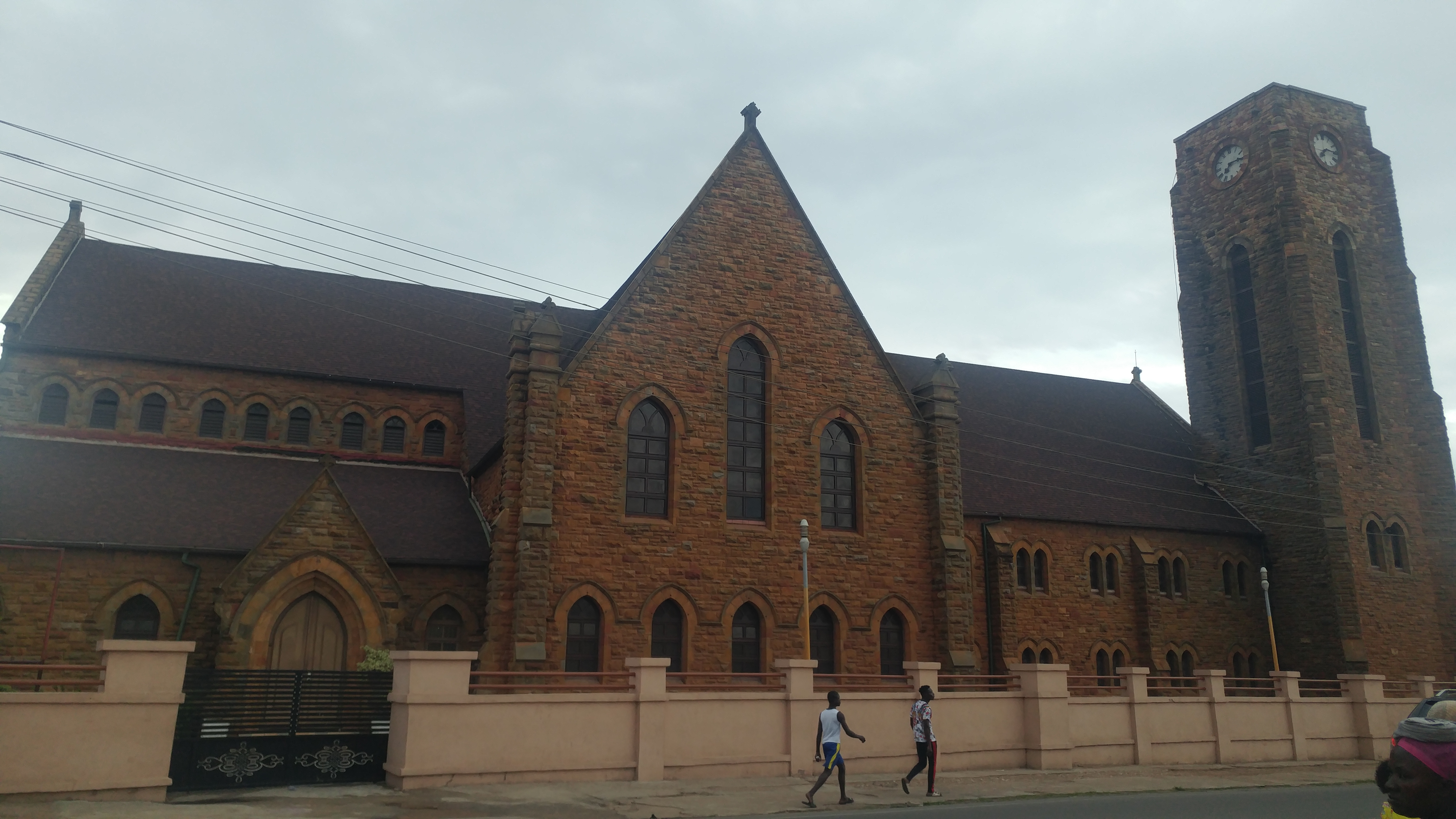 The Wesley Methodist cathedral was built in the 1922 in James town, Accra.